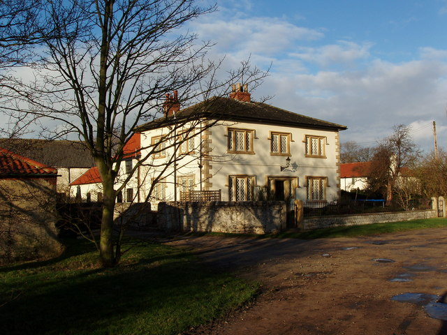 Farmhouse at Low Farm, Common Lane, Almholme, near Doncaster, South Yorkshire This farmhouse, on Common Lane, Almholme, is another of the imposing dwelling houses in the hamlet.